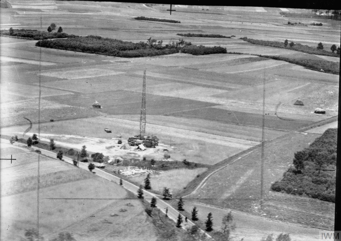 Low-level oblique aerial of a light mobile GEE station operating in a field near Roermond, Holland. Gee stations were relatively small, allowing them to be set up rapidly as the allied advance continued. These forward stations provided Gee coverage deeper into Germany, as well as strong signals for aircraft returning to bases in Holland.